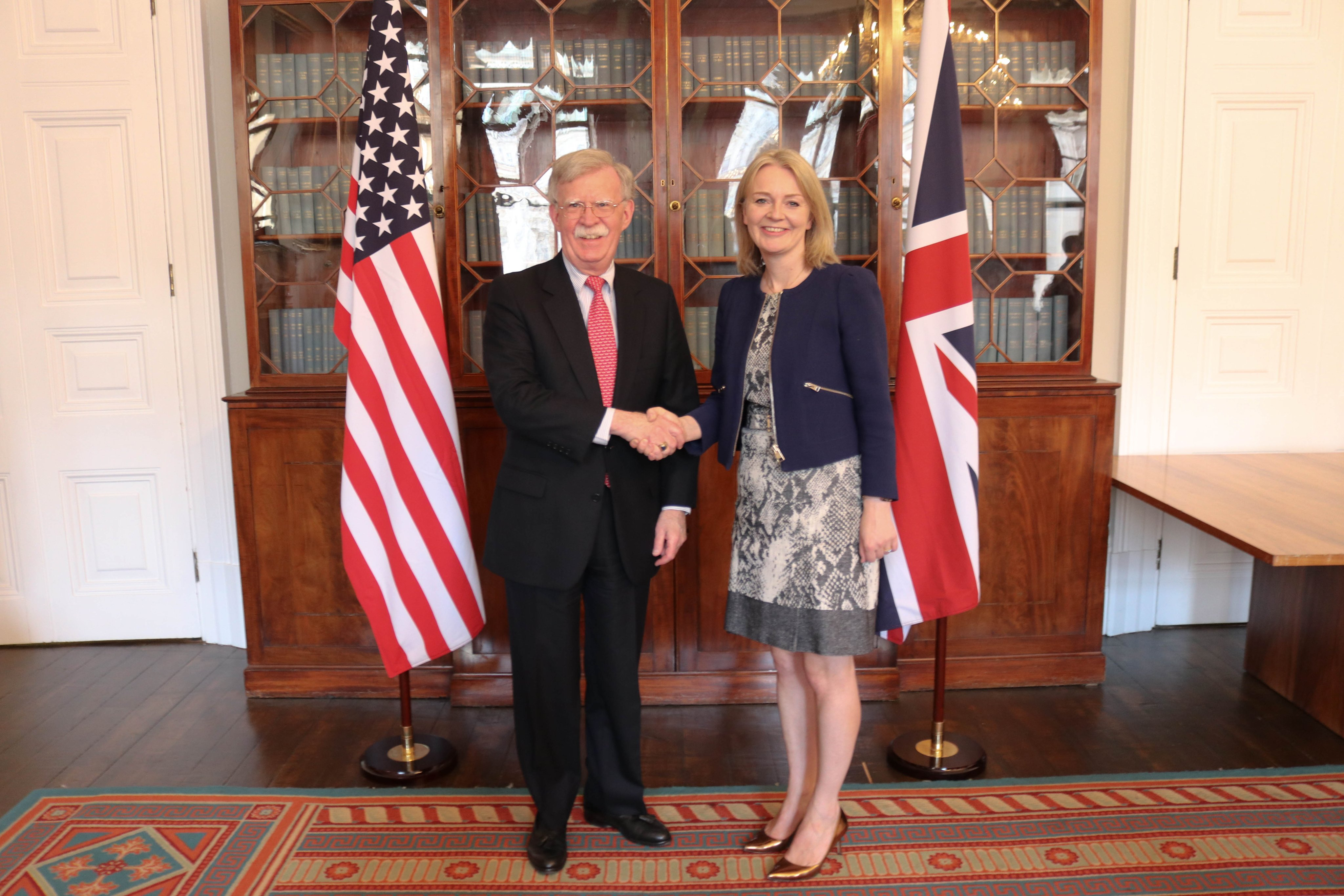 Another great discussion with UK Secretary of State for International Trade Liz Truss. US-UK partnership and collaboration on key global security issues, especially trade, are essential to promoting our nations’ shared prosperity.